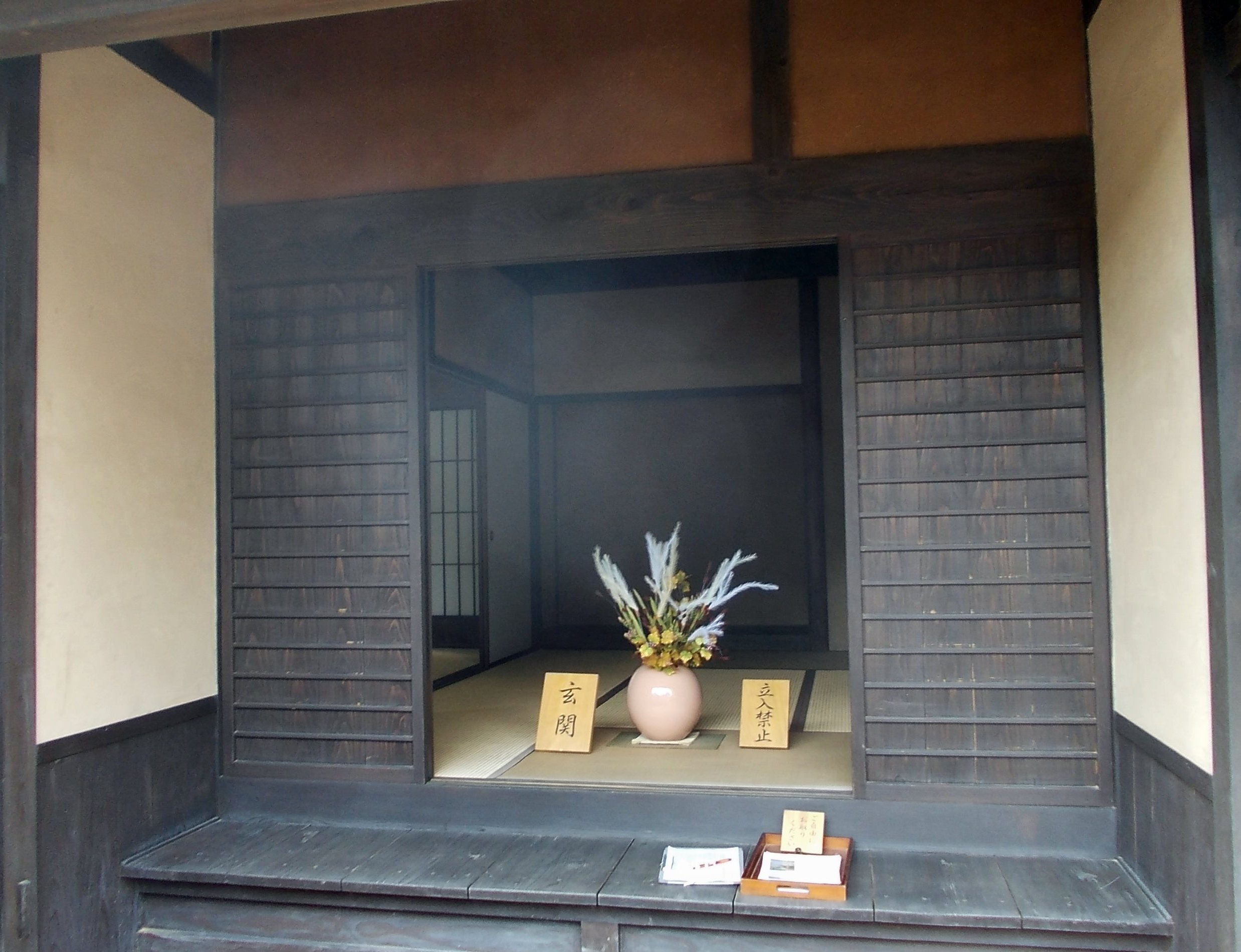 Tashiro Family's Old Residence, Asakura, Fukuoka, Japan